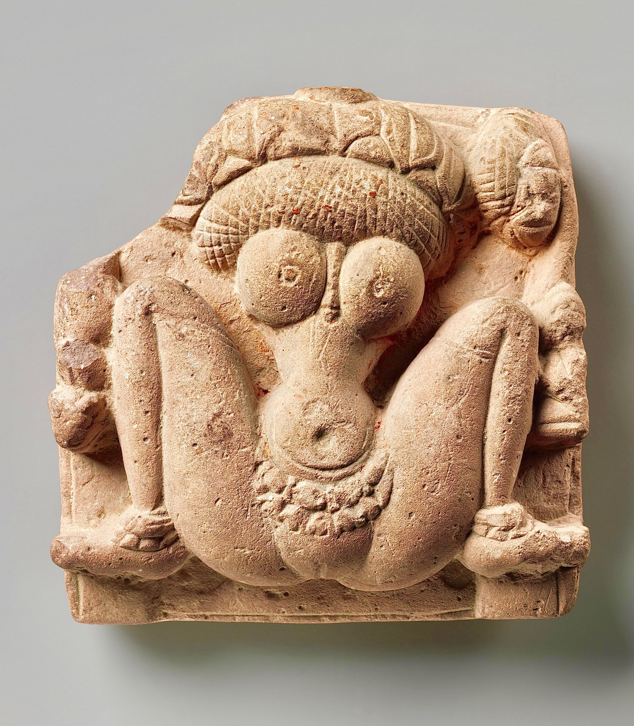 India (Madhya Pradesh) sculpture. Lajja Gauri with a lotus head and a female body below the shoulders, splayed showing yoni. An icon of cosmic feminine procreative energy, nature's fertility, the nature of cyclic existence through birth, and a symbol for Mother Earth in Shaktism and Shaivism traditions of Hinduism. For details and variants to this ancient Indic icon, see Carol Radcliffe Bolon (2010), Forms of the Goddess Lajja Gauri in Indian Art, Pennsylvania State University Press. ISBN 978-0-271-04369-2 A derivative work on MET DP253528.jpg, available on wikimedia commons under creative commons license.